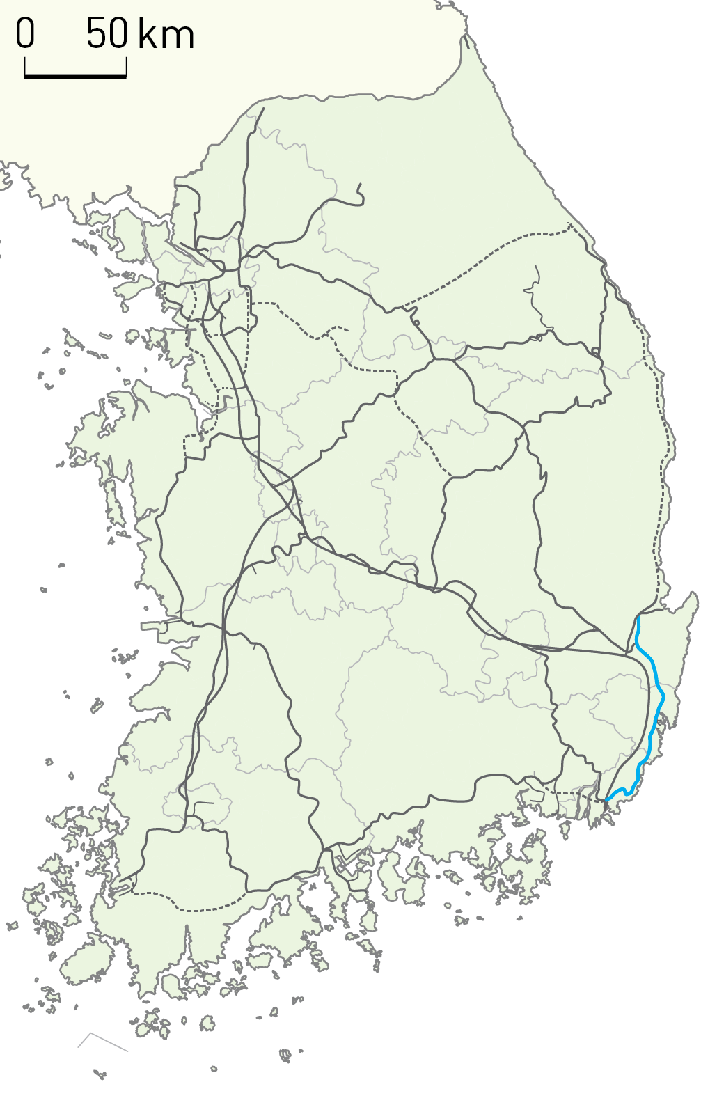 Korail Donghae Nambu Line Routemap